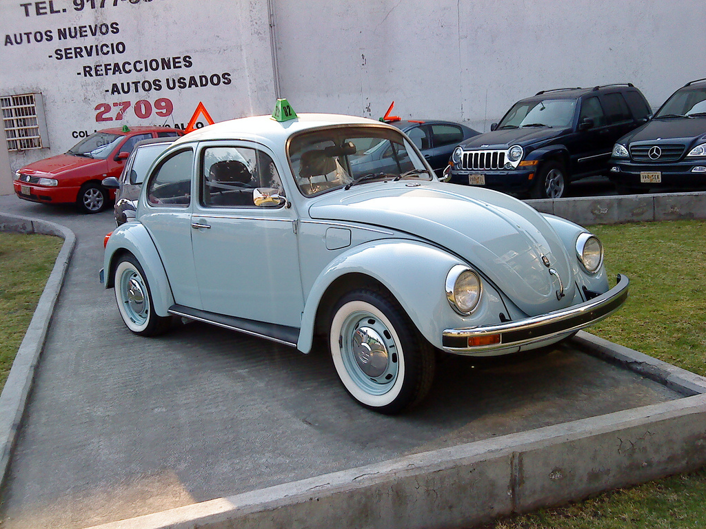 A last Edition Volkswagen Beetle in México.